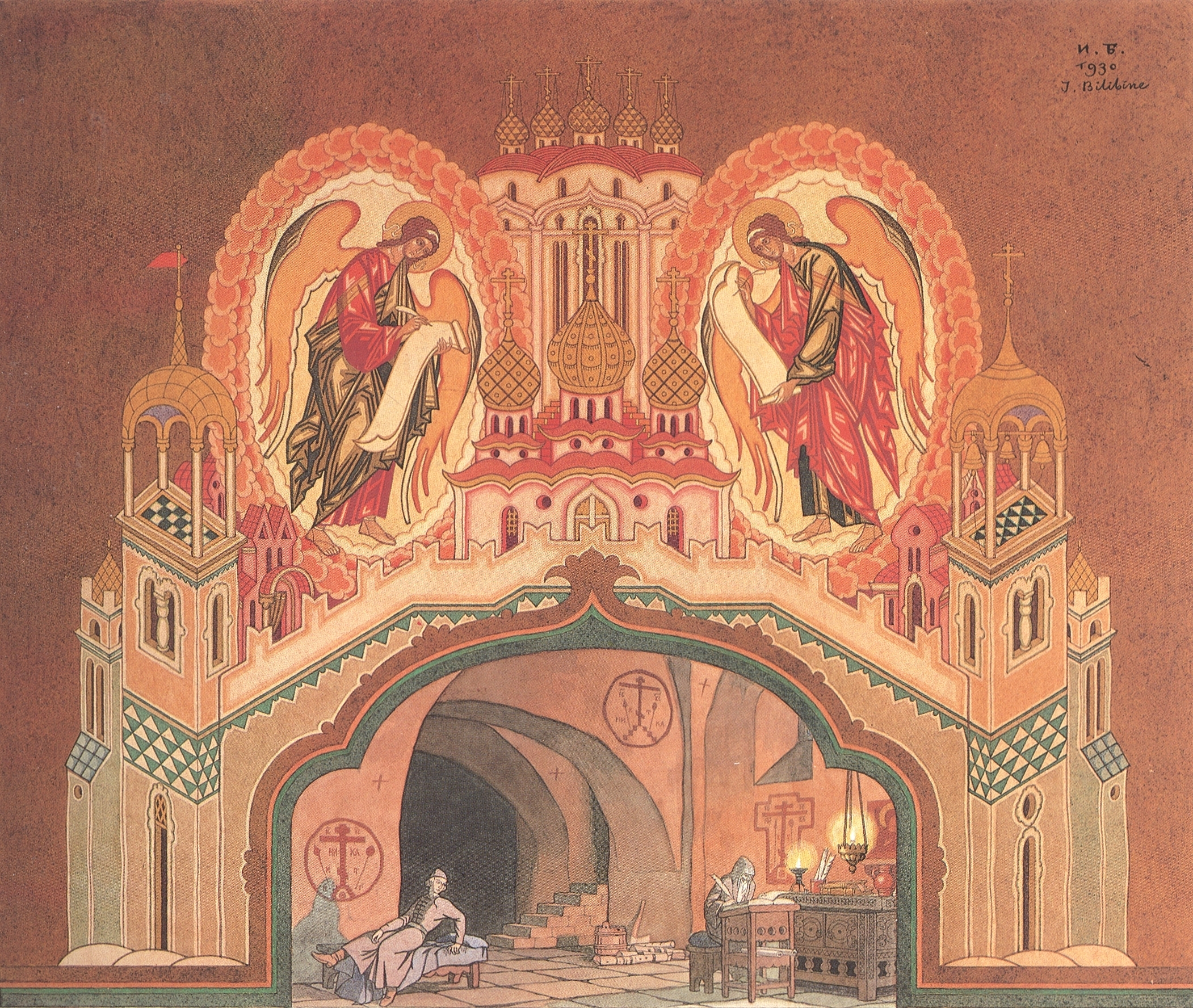 A cell in the Chudov monastery. Stage-set design for Scene One, Act One of the opera "Boris Godunov" by Mussorgsky. 1930